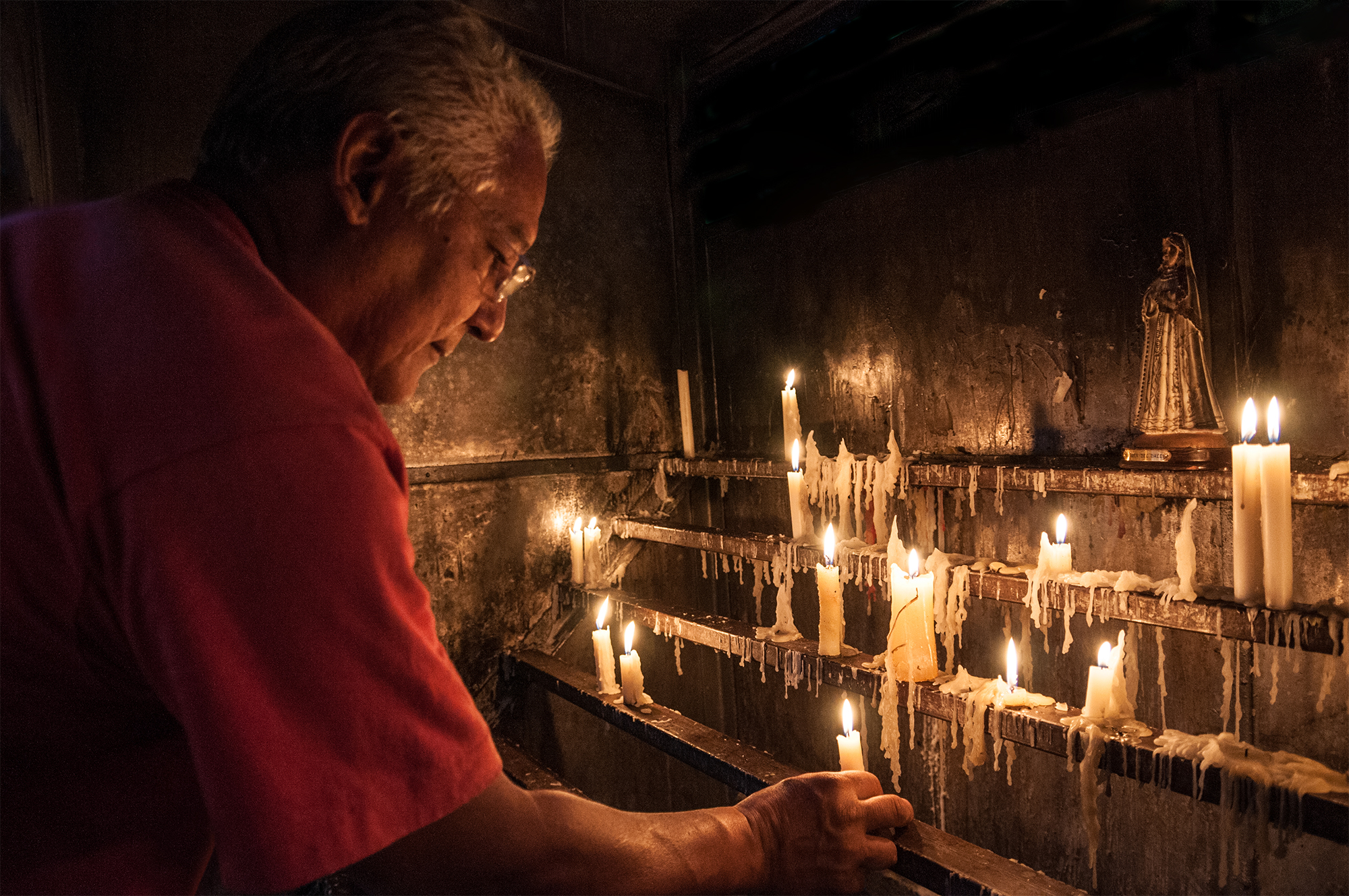 In Christianity, it is customary to light candles to worship God or his saints. The origin of the custom of lighting candles is in the prescriptions of the Old Testament: The Lord spoke to Moses, saying, Command the people of Israel to bring you pure oil from beaten olives for the lamp, that a light may be kept burning regularly. utside the veil of the testimony, in the tent of meeting, Aaron shall arrange it from evening to morning before the Lord regularly. It shall be a statute forever throughout your generations. He shall arrange the lamps on the lampstand of pure gold before the Lord regularly.. Lev 24, 1-4. The candles represent the physical act on our faith to the ultimate, raise our order, give light and heat through the purifying fire. In this case, a devotee placed a candle to the Virgen del Valle as a symbol of prayer in her intercession to god, that her prayer reaches God.